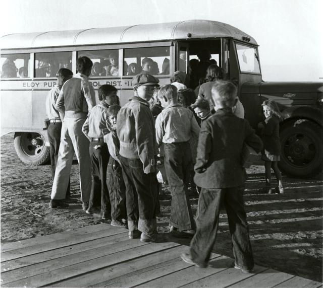 Migratory cotton pickers' children from an FSA mobile camp for migratory laborers boarding a school bus to the district school. Taken in Pinal County, Arizona, United States.